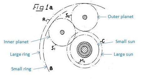 Annotated extract from US patent 2631476